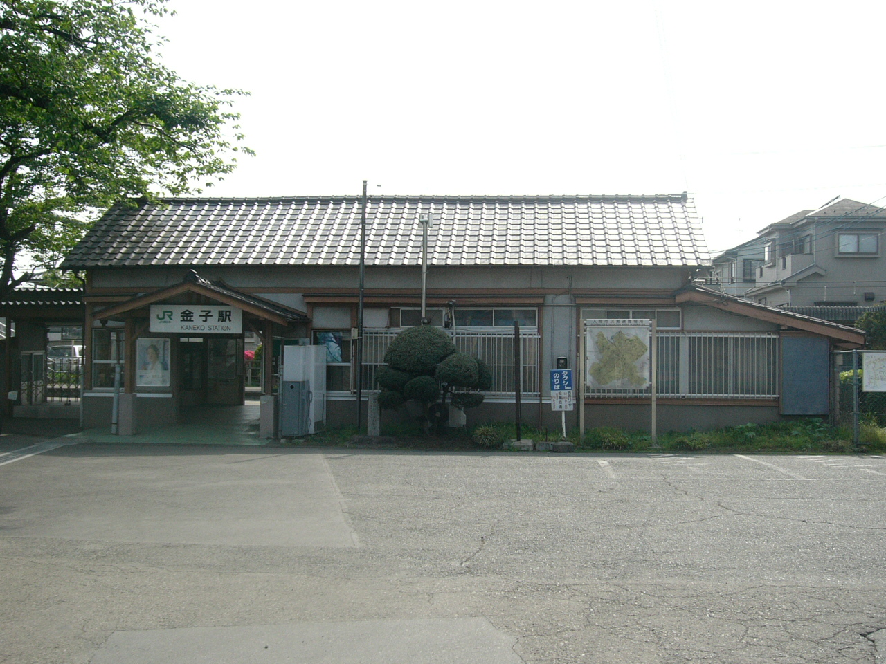 The station entrance and forecourt at Kaneko Station on the Hachiko Line in Saitama Prefecture, Japan